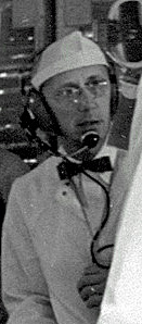 Guenter Wendt in the Friendship 7 whiteroom